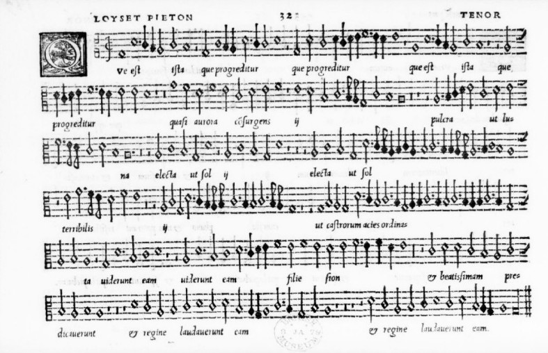 The motet "Que est ista" by Loyset Pieton in Motetti del frutto (Venise, Gardano, 1549).